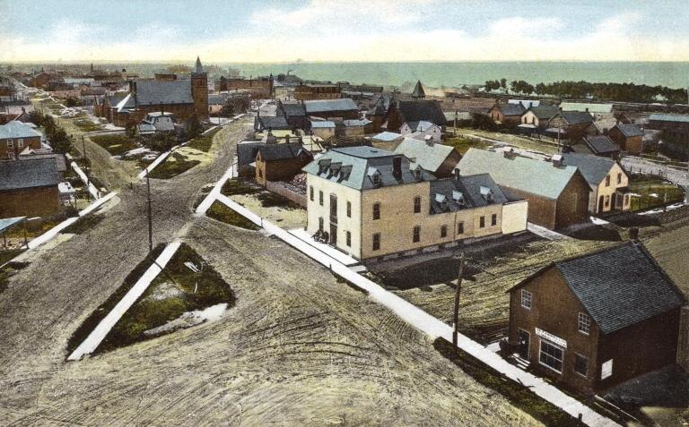 Print (photomechanical), North Bay, ON, about 1910, Coloured ink on paper mounted on card - Collotype - 8.8 x 13.7 cm